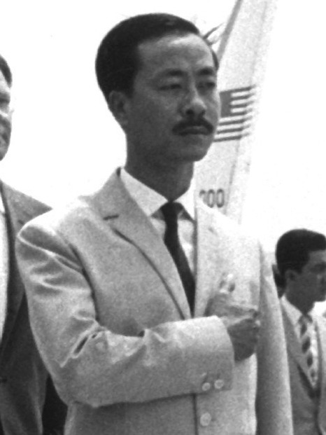 Nguyen Cao Ky in 1967.